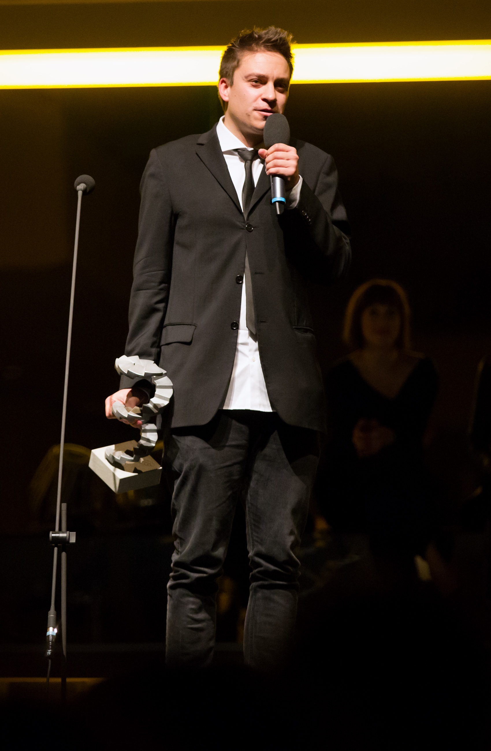 Director Patrick Vollrath (best short film: Everything Will Be Okay) - Austrian Film Awards 2016 (Grafenegg, Austria).